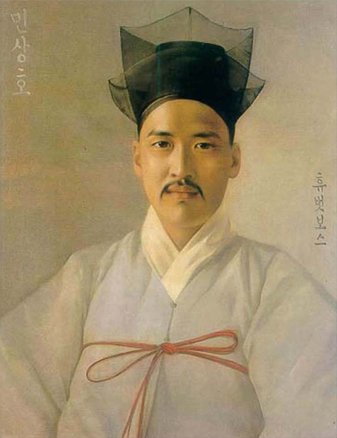 Portrait of Min Sangho, a politician of Joseon Dynasty painted by Hubert Vos in 1899, oil on canvas, Height: 76.2 cm (30 in); Width: 61 cm (24 in) dimensions QS:P2048,76.2U174728;P2049,61U174728, private collection